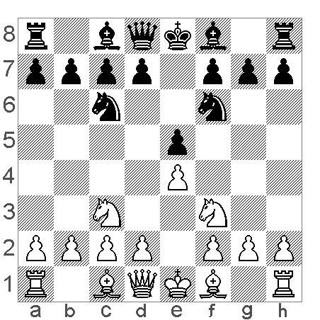 chess diagram 4_knights_game Source: CBlight + my processing